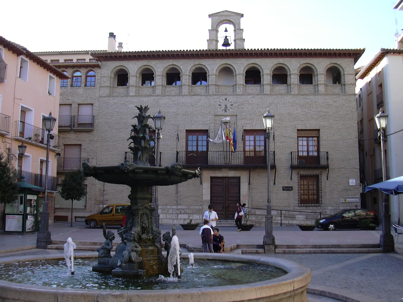 Borja - Town hall (16th century)